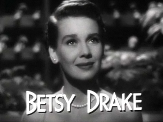 Screenshot of Betsy Drake from the trailer for the film Every Girl Should Be Married